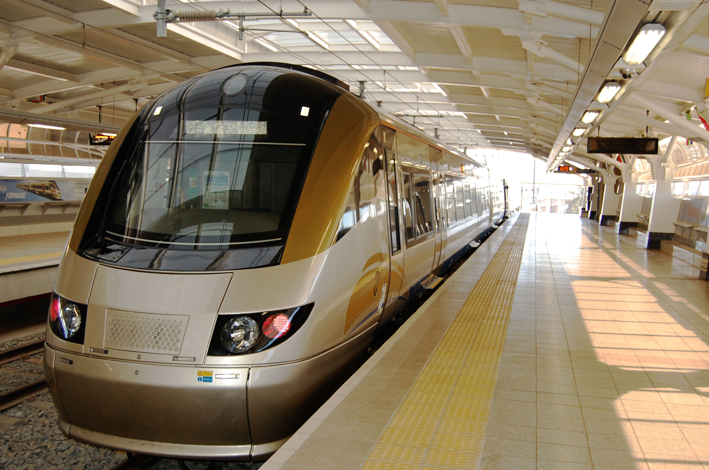 Gautrain..., O R Tambo Intl Airport South Africa